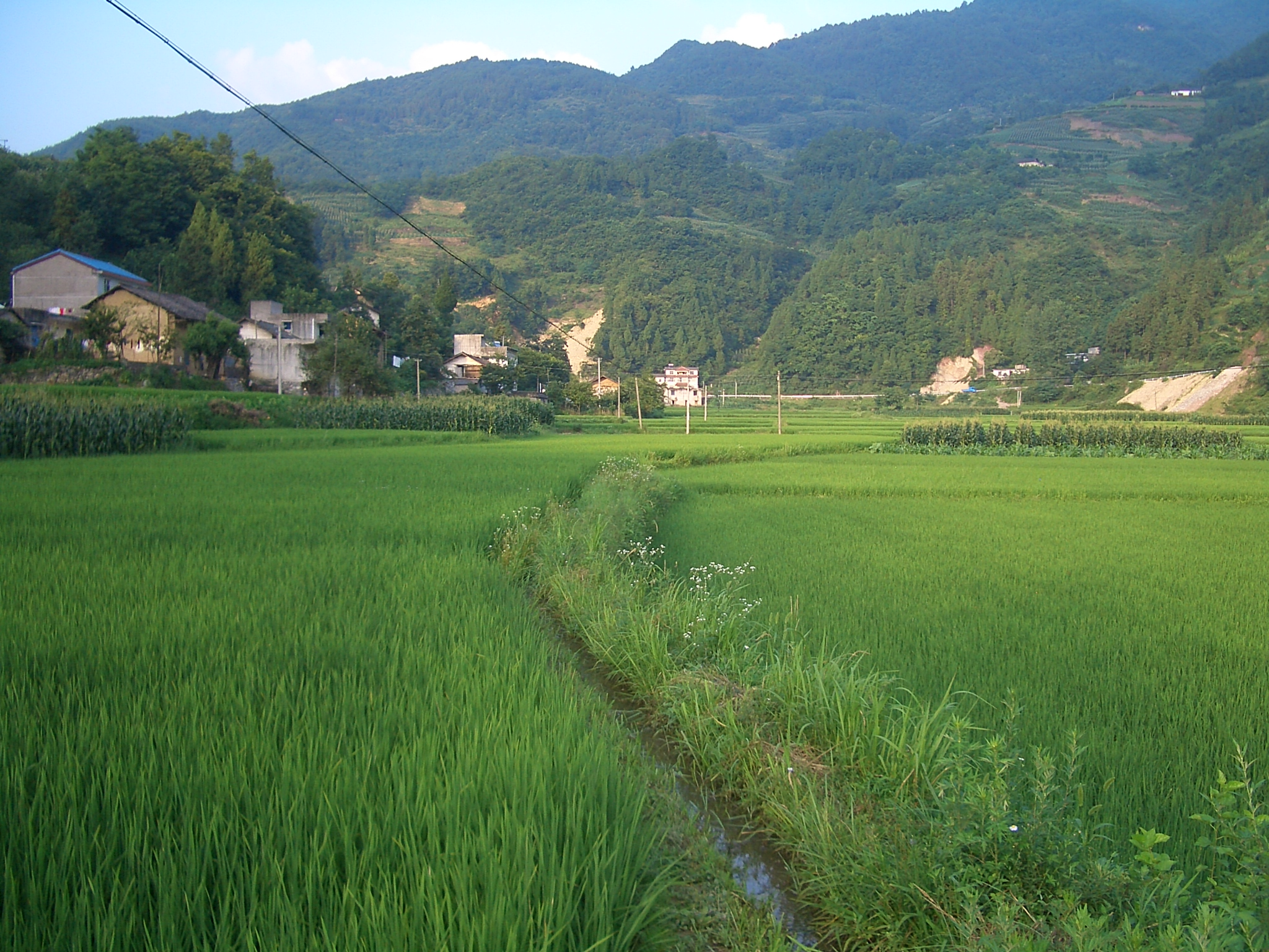 In the valley of the Liangtai River, just NE of Gaoqiao Township, Xingshan County, Hubei. This is an important agricultural area for the locals, since planting rice and other crops is much more feasible here than on the mountain slopes surrounding the valley